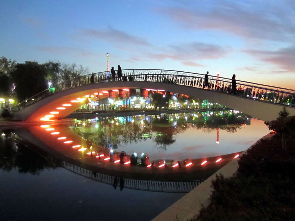 A bridge in Ankara's lovely Genclik Park.